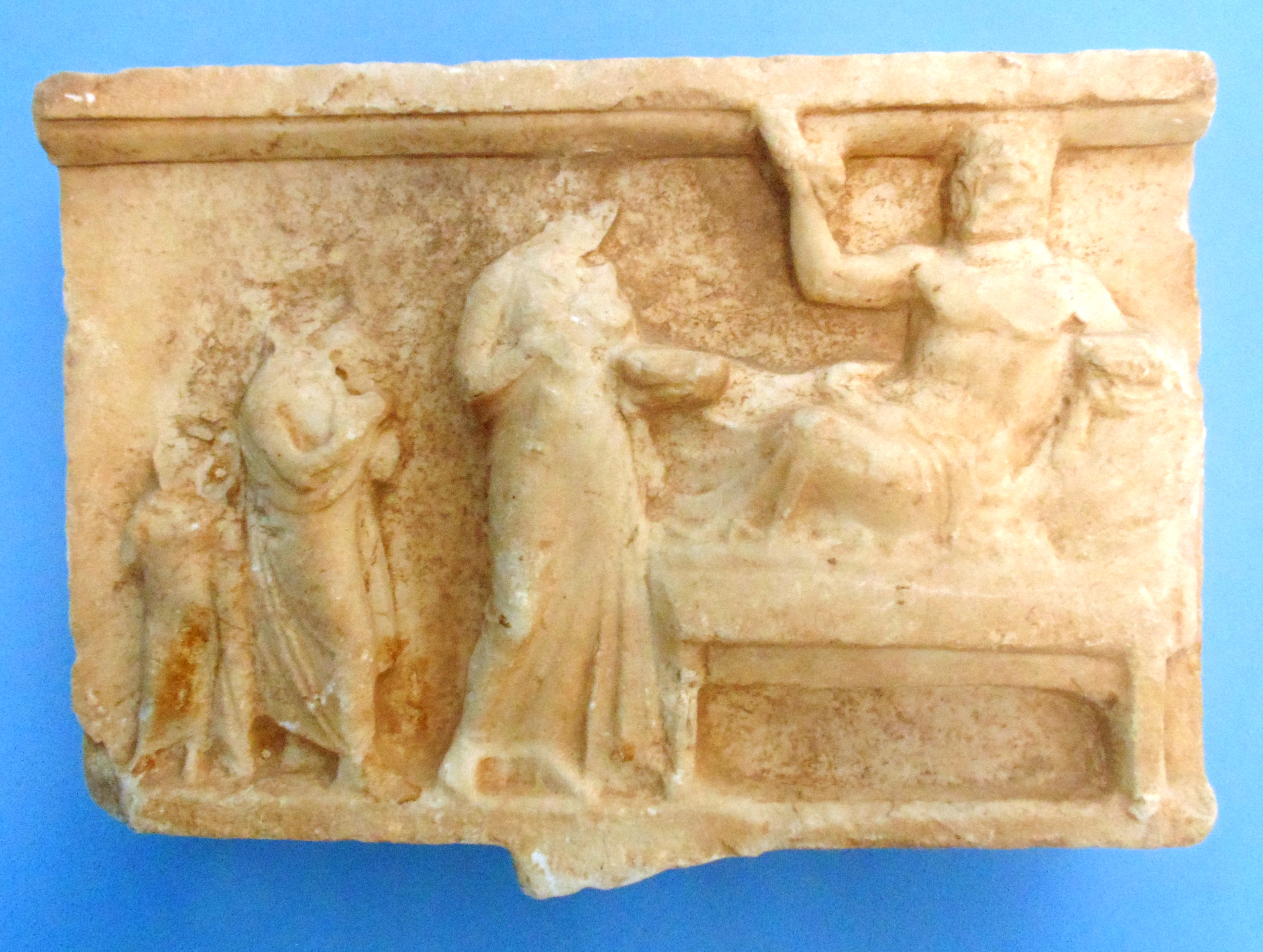 Collection of Archaeological Museum of Megara